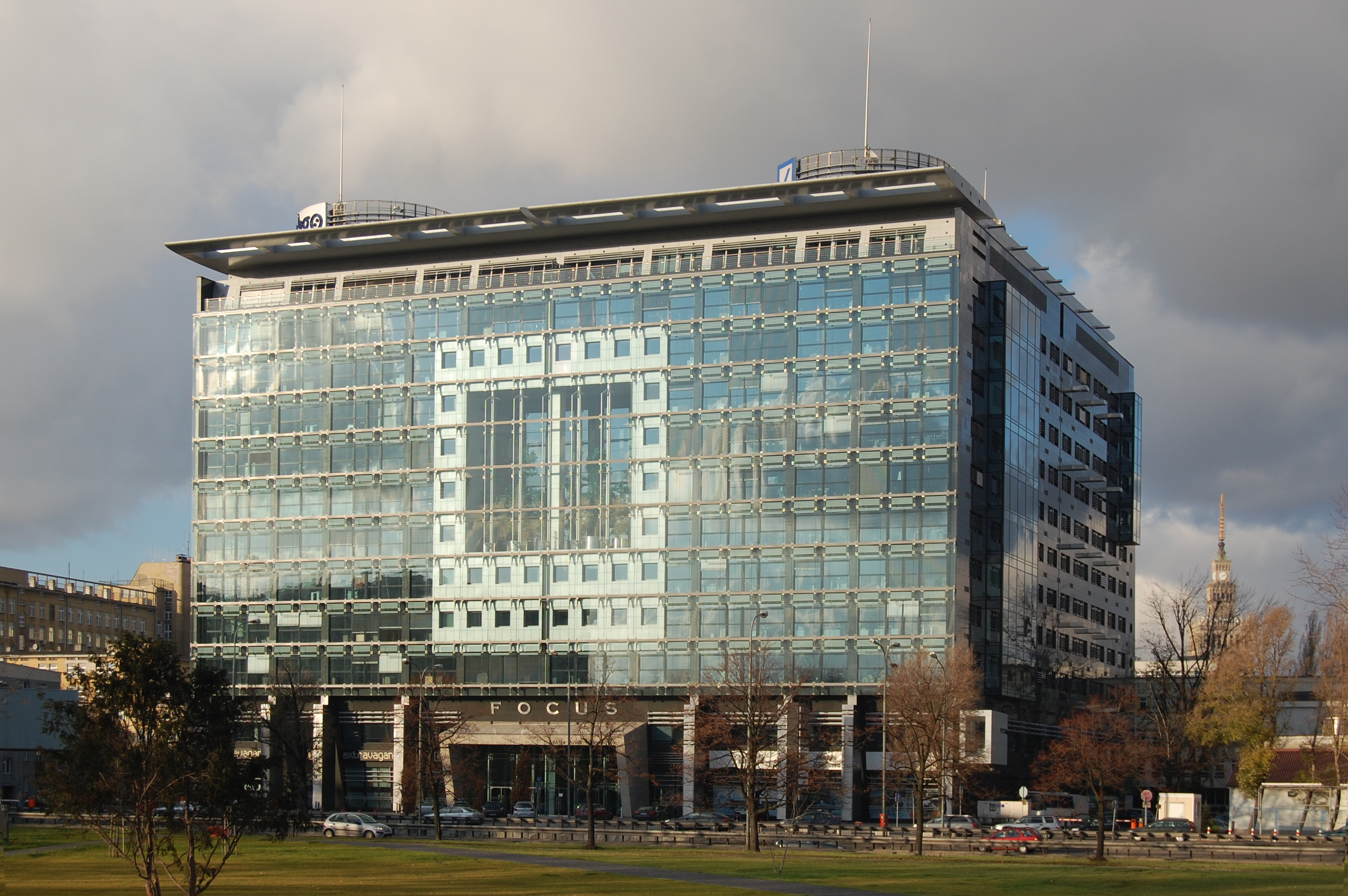 Focus building in Warsaw, Poland